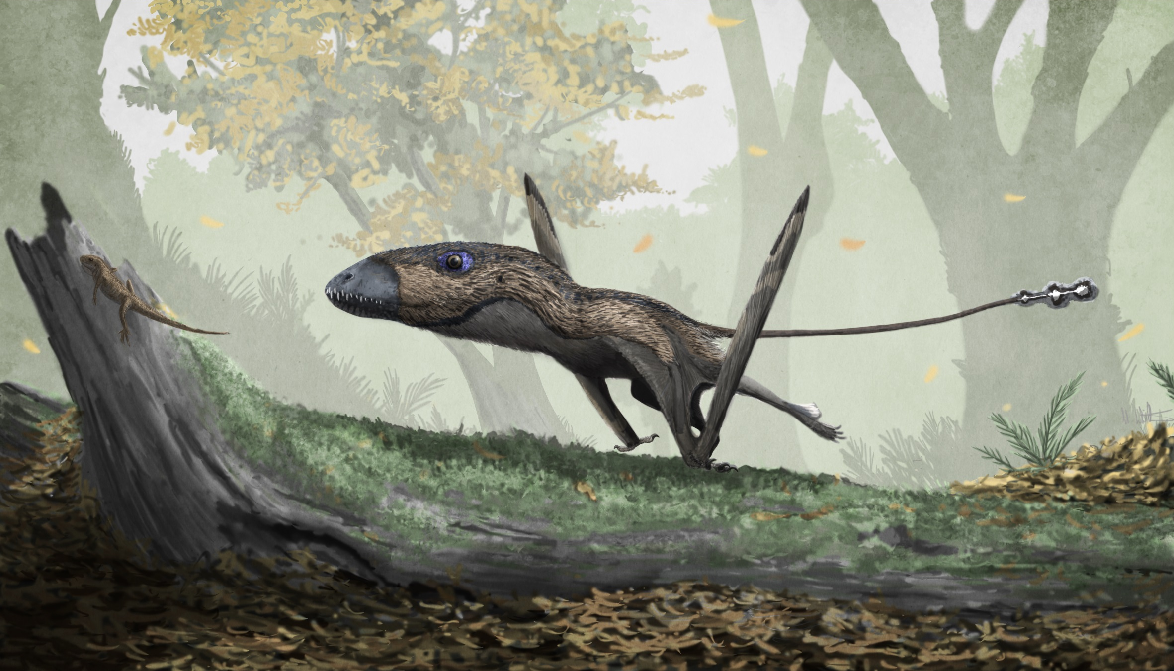 Life restoration of the Early Jurassic species Dimorphodon macronyx with fully adducted humeri and parasagittal gait, shown here facilitating subcursorial, rapid terrestrial locomotion in pursuit of sphenodontian prey.